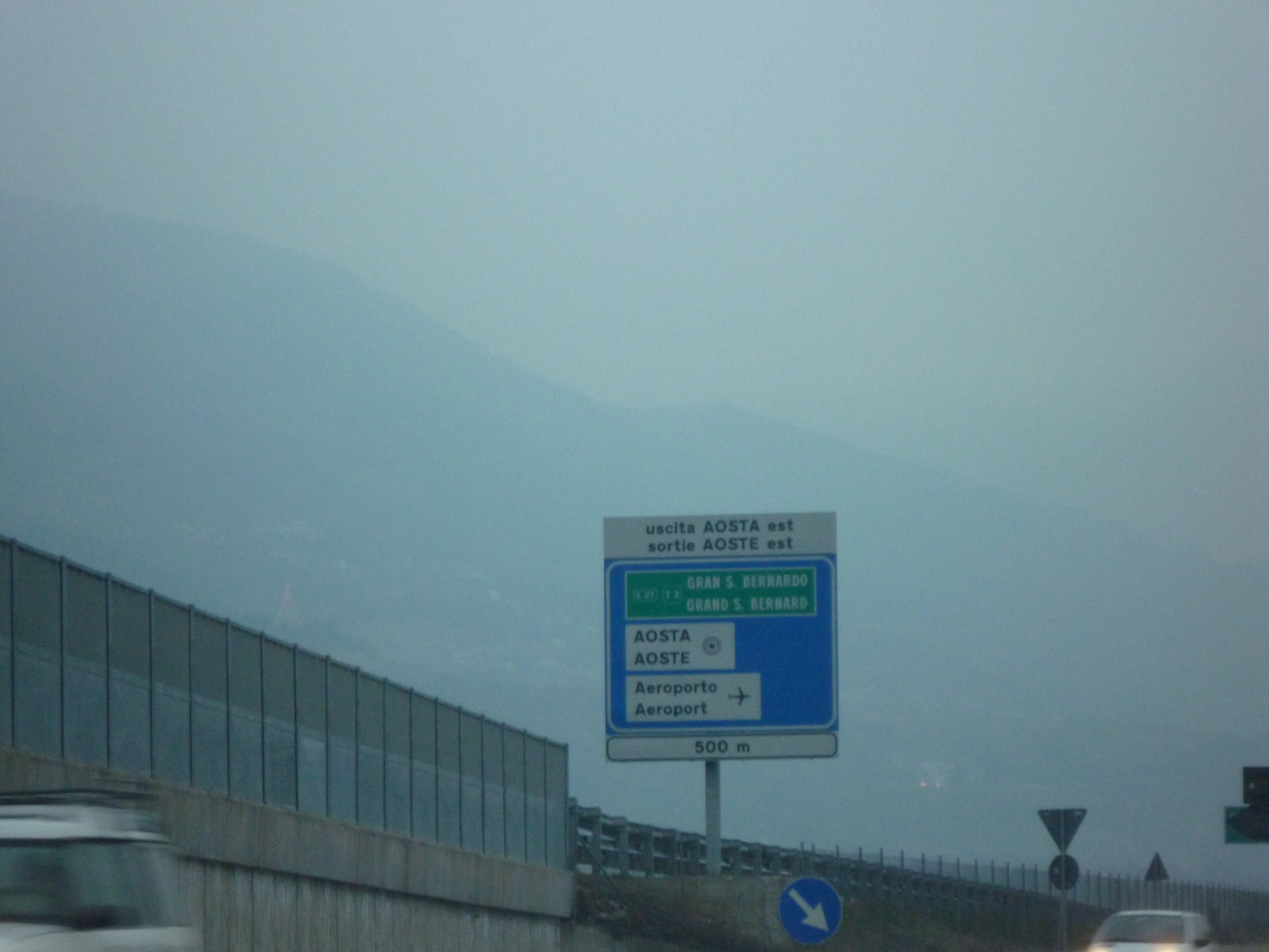 Road signals highway A5 Italy